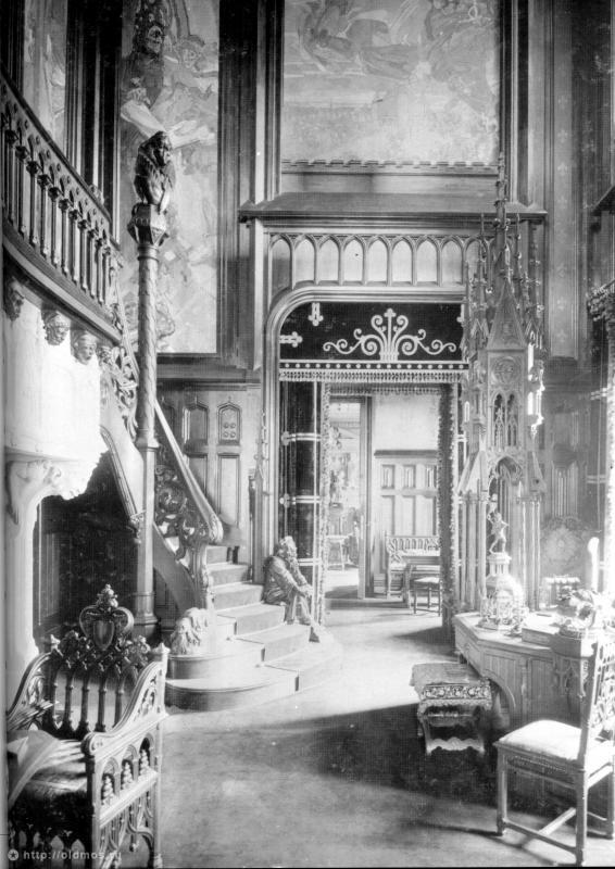 Morosov house interior by Fyodor Schechtel